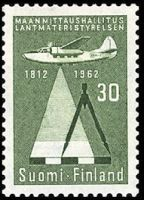 National Land Survey of Finland 150 years anniversary